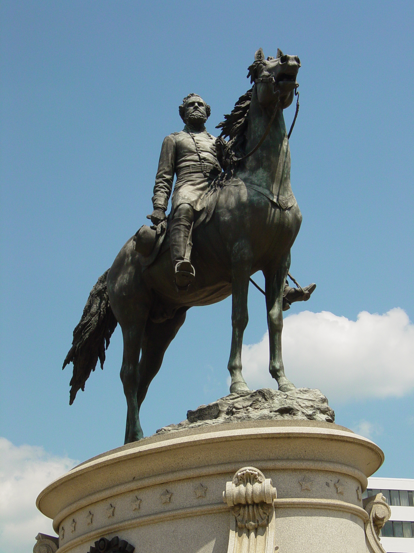 Statue of General Thomas in Thomas Circle, Washington DC.